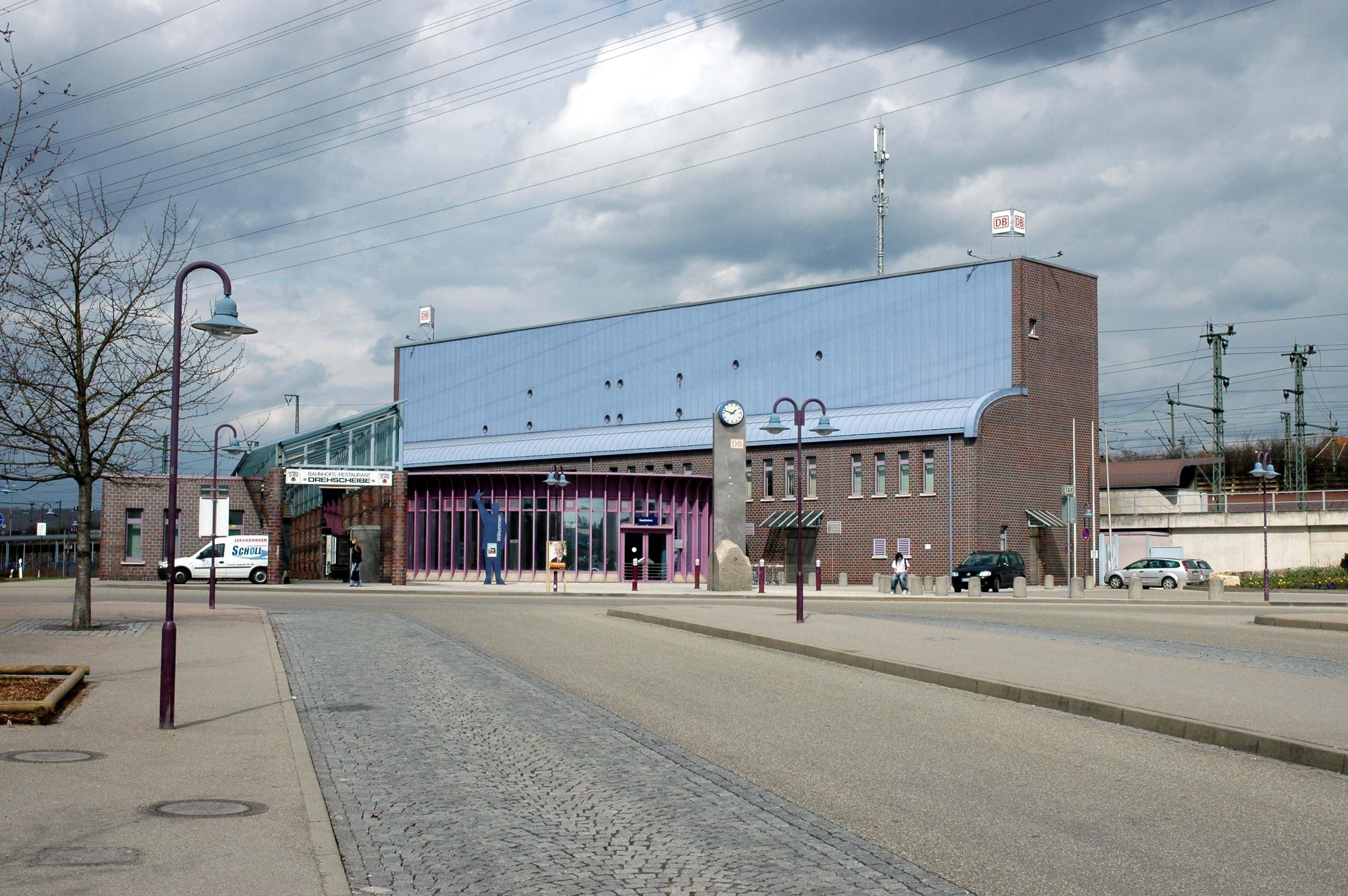 building of the new station of Vaihingen (Enz) located at the high speed tracks from Mannheim to Stuttgart.